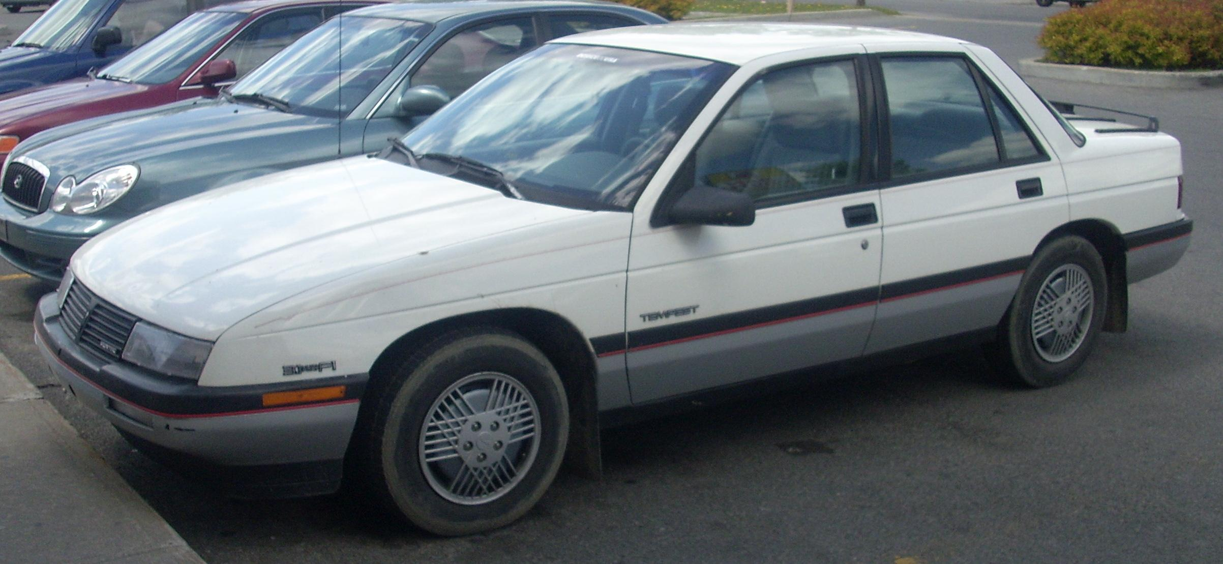 Pontiac Tempest photographed in Laval, Quebec, Canada.